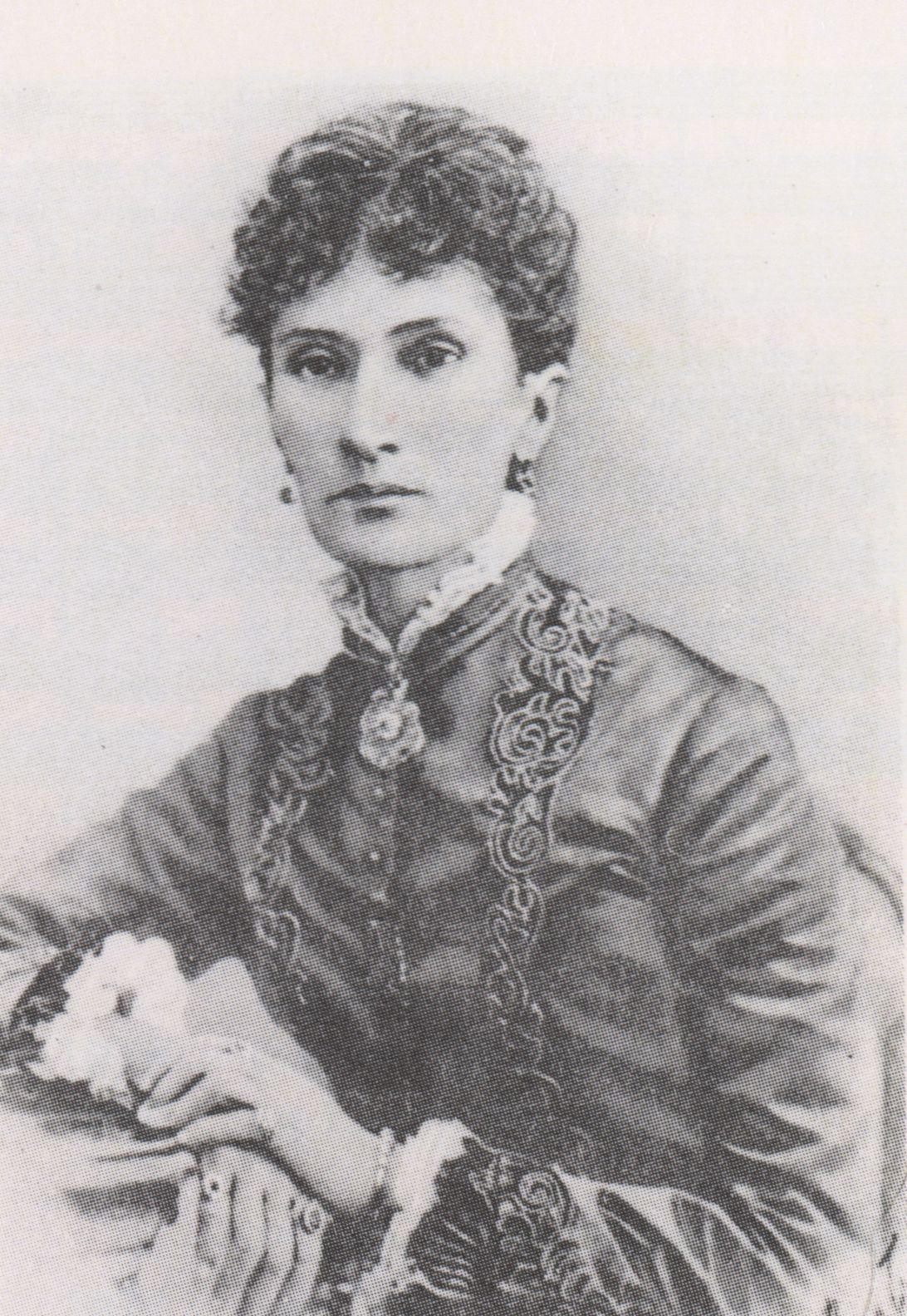 Portrait of Nadezhda von Meck.